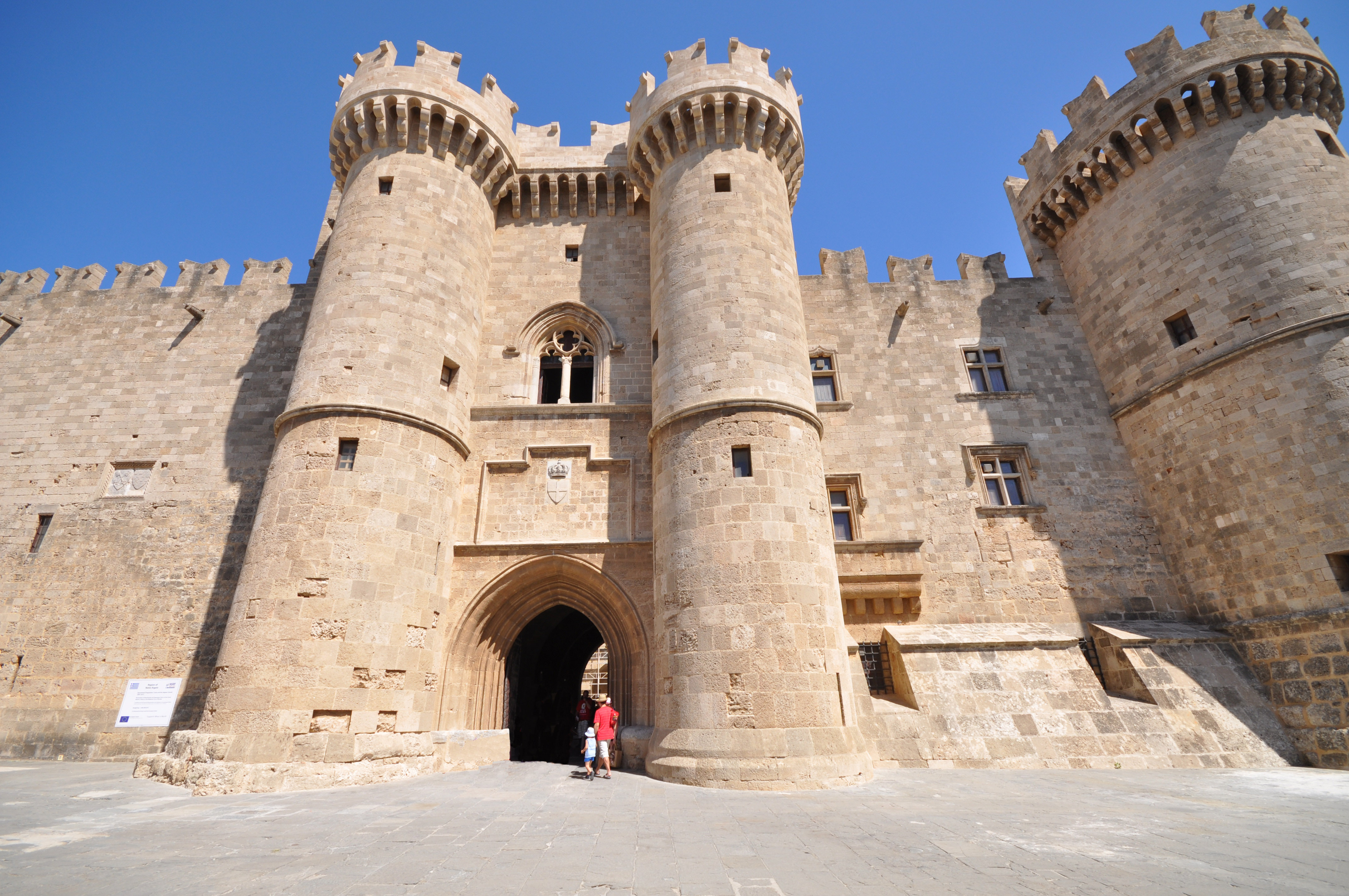 The Palace of the Grand Master of the Knights of Rhodes is a medieval castle in the city of Rhodes, on the island of Rhodes in Greece. The site was previously a citadel of the Knights Hospitaller that functioned as a palace, headquarters and fortress. Overview The palace was built in the early 14th century by the Knights of Rhodes, who controlled Rhodes and some other Greek islands from 1309 to 1522, to house the Grand Master of the Order. After the island was captured by the Ottoman Empire, the palace was used as a command center and fortress. Some parts of the palace were damaged by an ammunition explosion in 1856. When the Kingdom of Italy occupied Rhodes in 1912, the Italians made the palace a holiday residence for the King of Italy, Victor Emmanuel III, and later for Fascist dictator Benito Mussolini, whose name can still be seen on a large plaque near the entrance. On 10 February 1947, the Treaty of Peace with Italy, one of the Paris Peace Treaties, determined that the recently-established Italian Republic would transfer the Dodecanese Islands to Greece. In 1948, Rhodes and the rest of the Dodecanese were transferred as previously agreed. The palace was then converted to a museum, and is today visited by the millions of tourists that come to Rhodes. In 1988, when Greece held the rotating presidency of the European Economic Community (as the European Union was known back then), Greek Prime Minister Andreas Papandreou and the other leaders of the EEC had a famous party in the Palace.